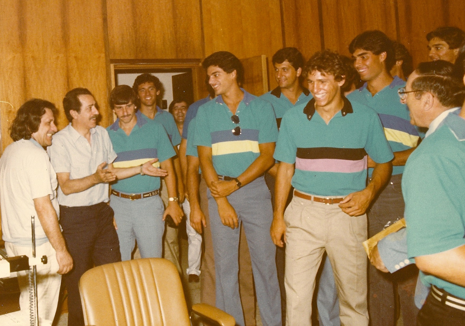 Taki Arvanitis-Greek Businessman/Greek Professional Basketball Team Owner ,Andreas Fouras-Greece Ministry of Sports Under Secretary,Larry Kopczyk-Transylvania University,Chris Nikitas-Depaul,Chris Roupas-Penn State(with sunglasses on shirt),Tony Kazanas-Bowling Green,Dan Nikitas-St. Michaels's (Vermont),Peter Koclanes-Colorado,USA-AHEPA All-Star Coach Dr.Monthe Kofos,Tim Birtsas-Michigan State. Not pictured, Dean Tsipis-Case Western,John Koutsoflakis-Boston Hellenic College,Chris Tsiotis-Suffolk U.,Terry Benka-Drake,Tom Papathakis-Chico State,Assistant Coaches: Spiros Siaggas,Judge Tom Yeotis,Clinician Dean Bouzeos, and Trainer George Petroleas.